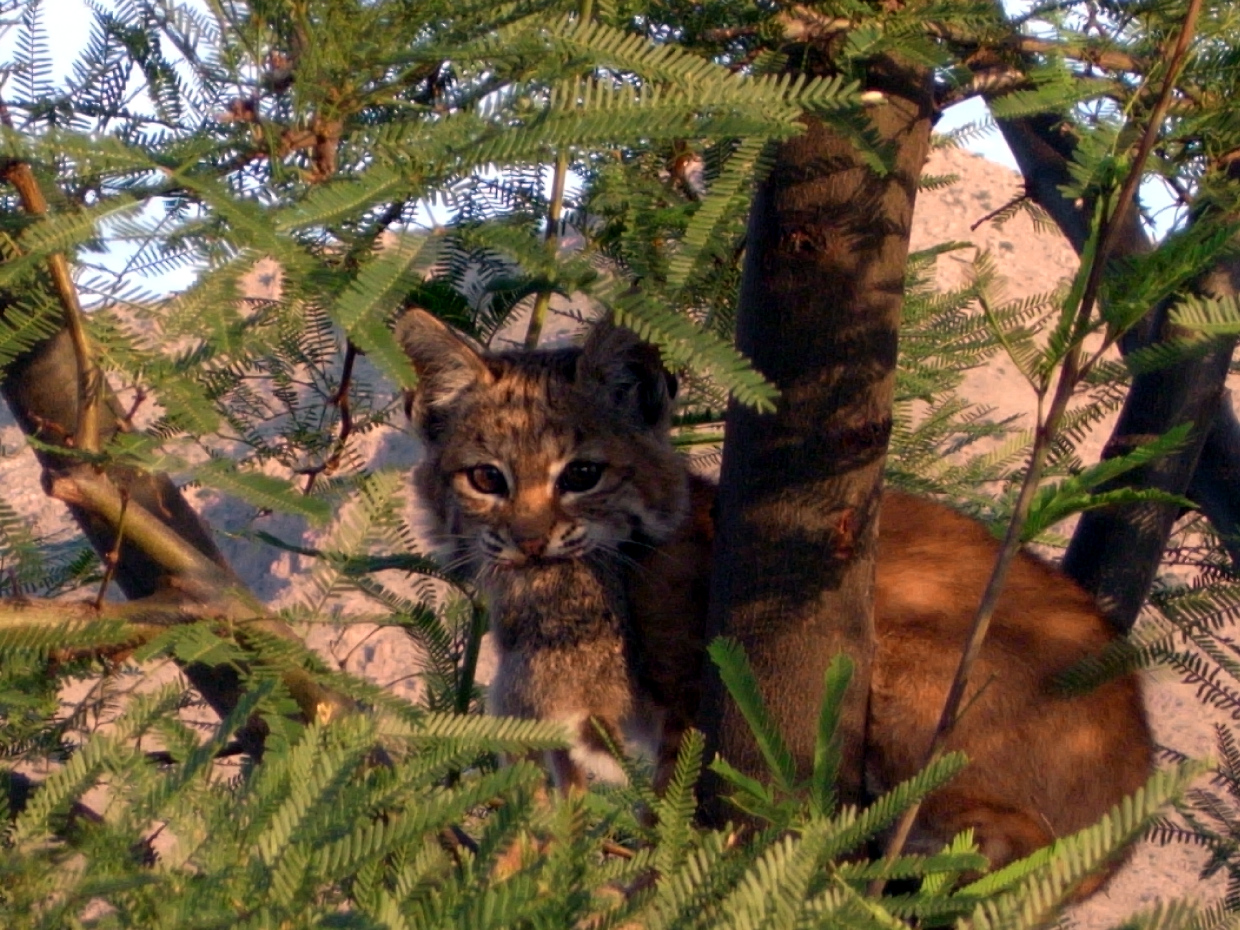 A bobcat (kitten) in a mesquite tree with a rabbit in its mouth.